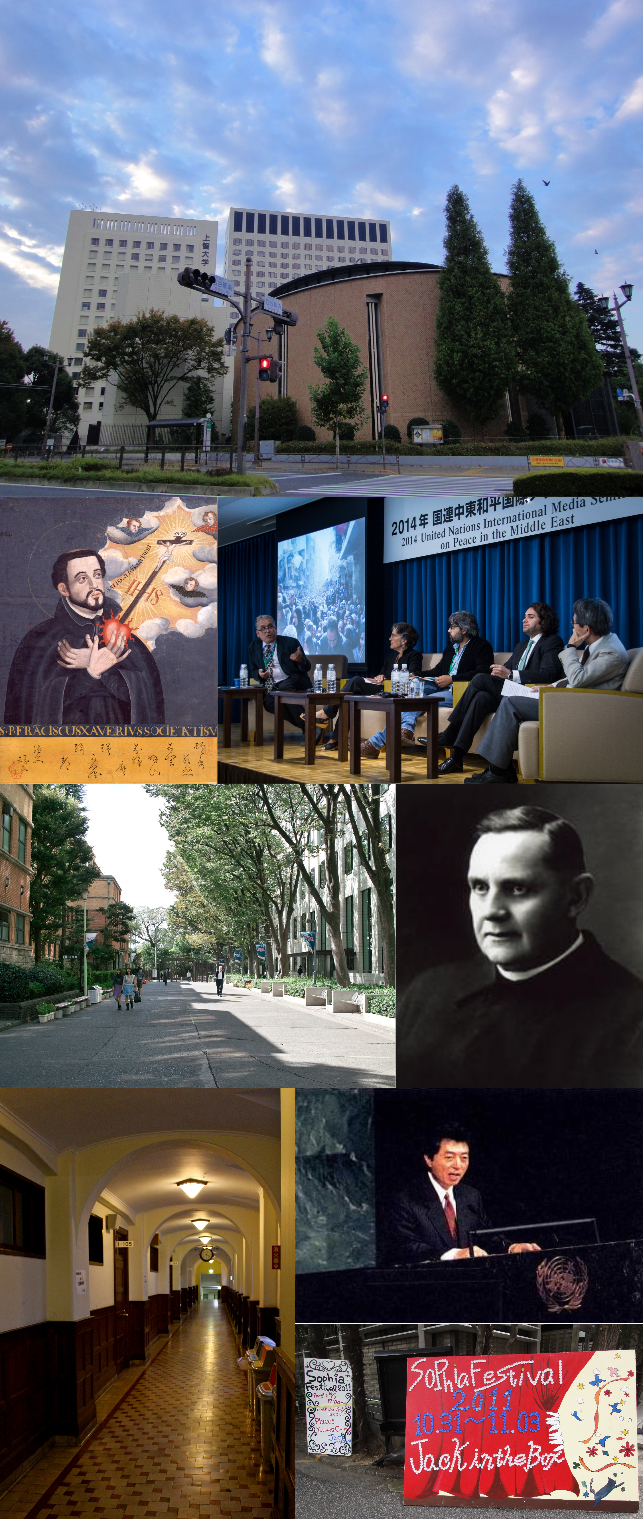 Montage of Sophia University